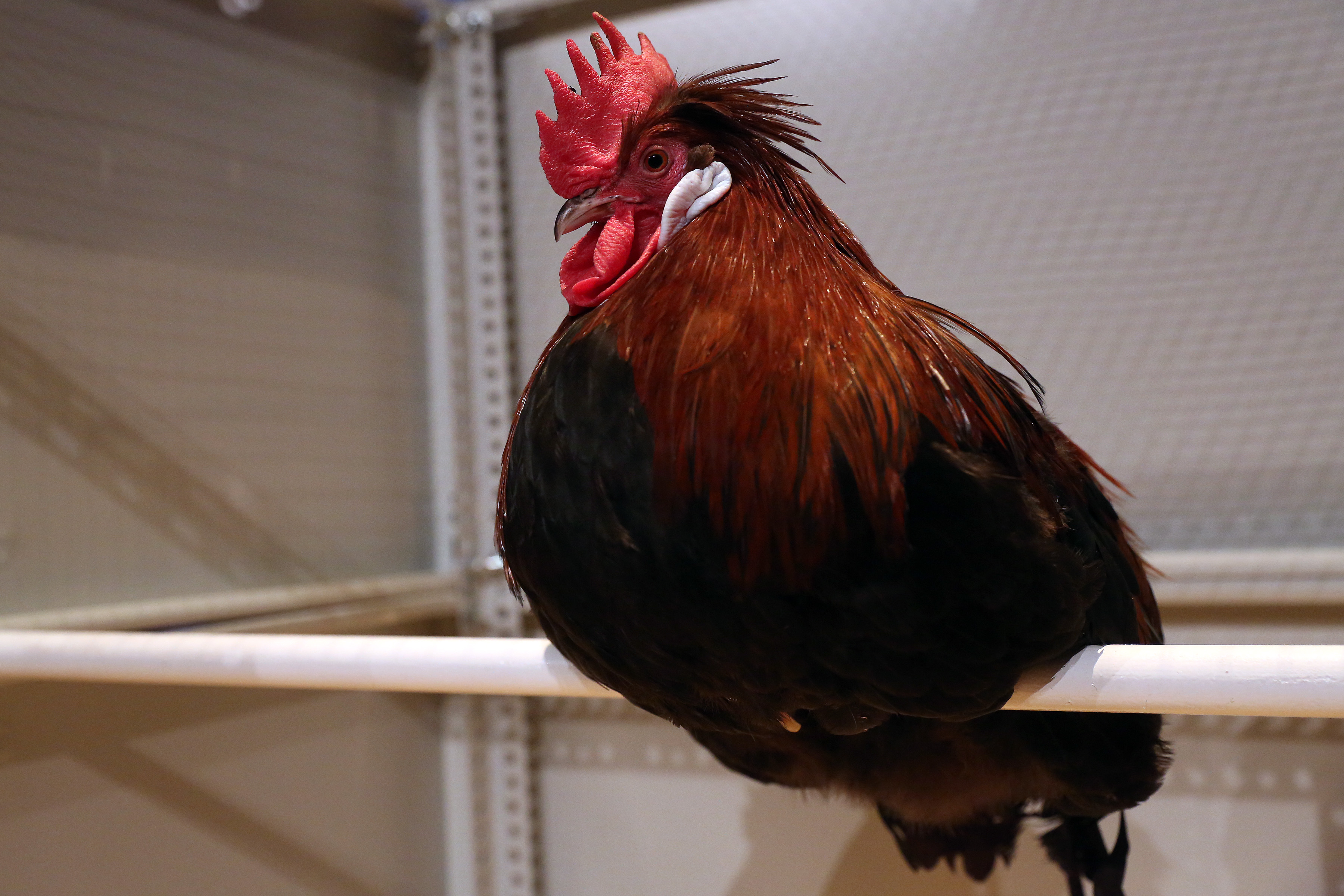 Chicken bred by Koen Vanmechelen during his "Cosmopolitan Chicken Project", Prix Ars Electronica 2013; Brucknerhaus, Linz, Upper Austria.